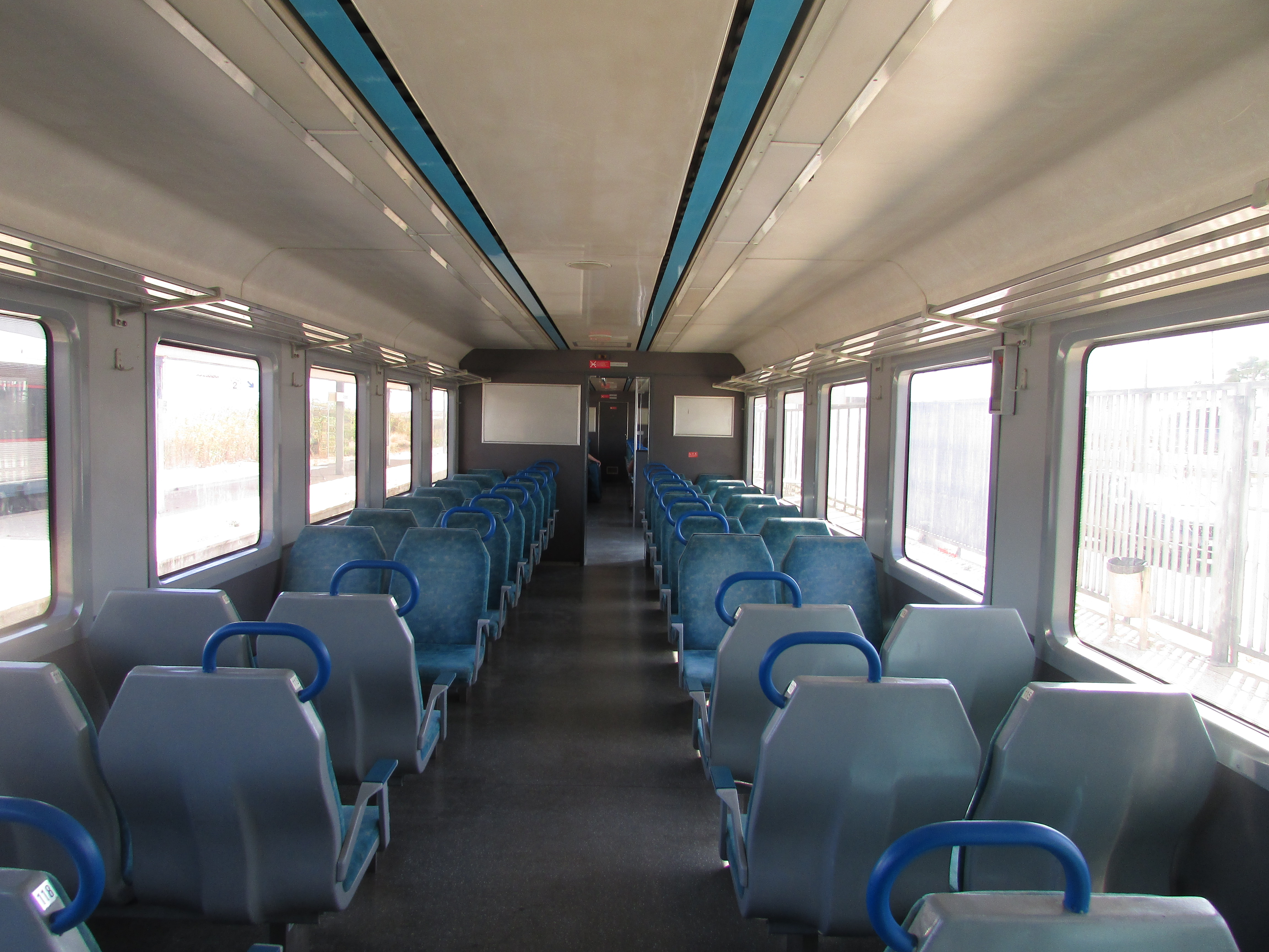 A carriage aboard a type 0450 train at Lagos railway station located in the city of Lagos, Algarve, Portugal.